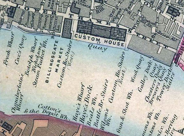 Location of the quays from Fresh Wharf to Tower Dock Stairs, as indicated in the 1862 Edward Stanford map of London